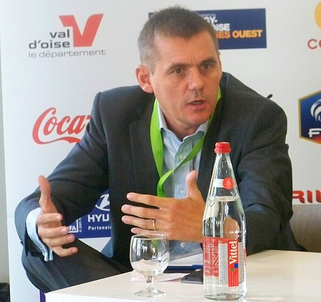 Photo of Olivier Leclercq in front of an audience during the Salif Keita Stadium inauguration press conference.